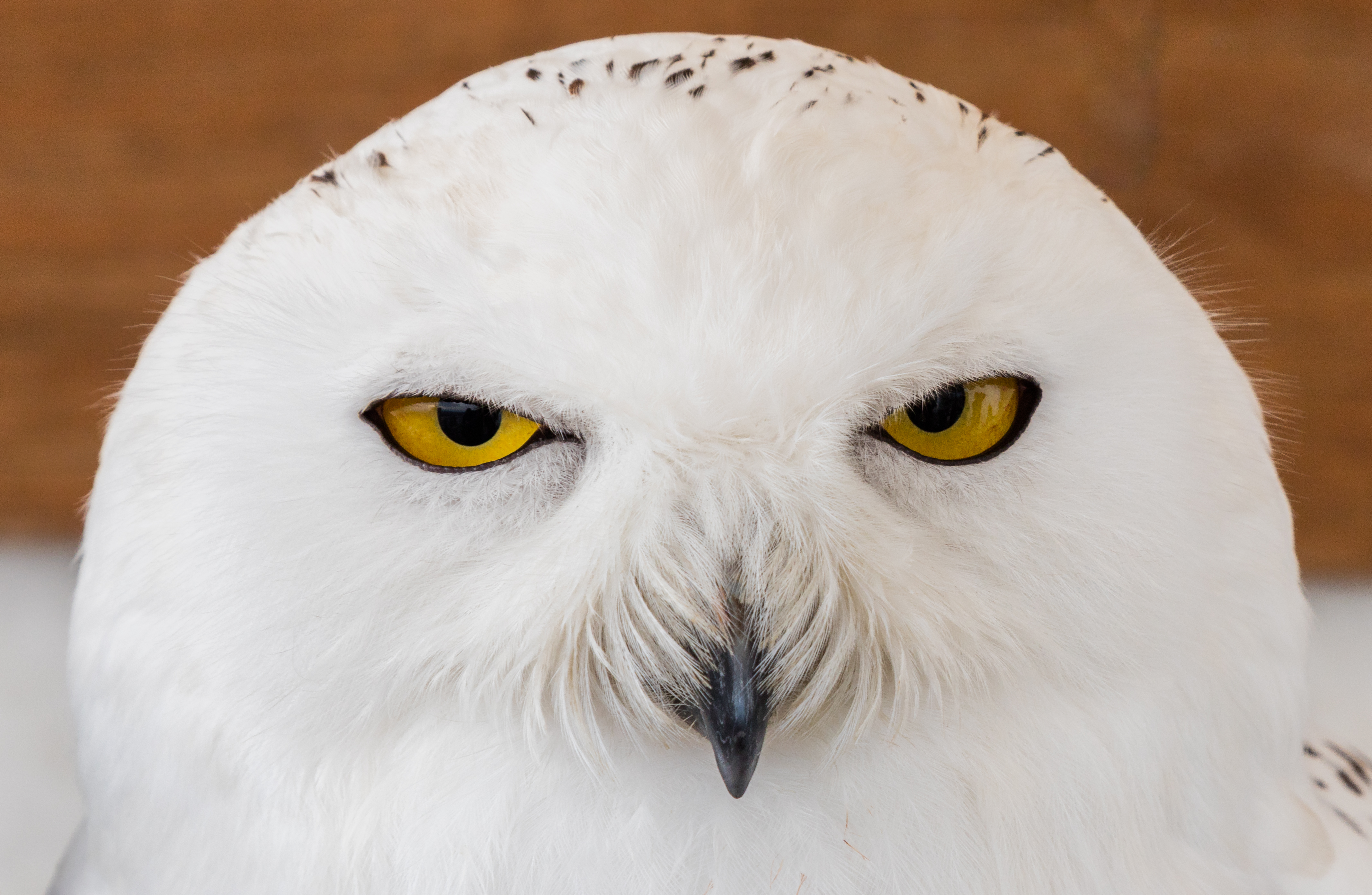 Portrait of a female Snowy owl (Bubo scandiacus), Arcos de la Frontera, Cádiz, Spain. The example is captive; snowy owls are native to Arctic regions of North America and Eurasia.